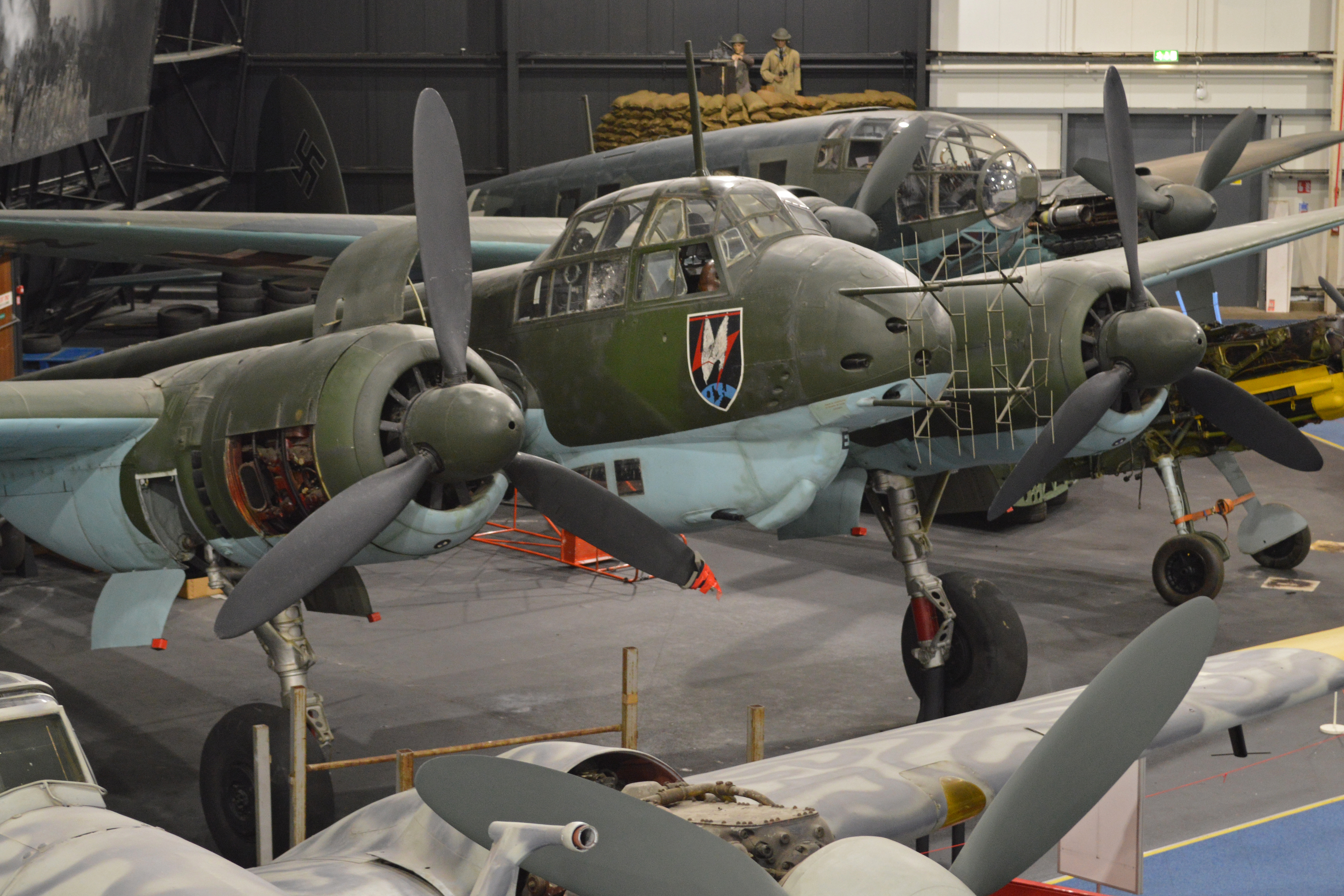 Landed undamaged at Dyce, Scotland, on 9th May 1943 when the crew defected. The aircraft was escorted to the airfield by two Spitfire VBs from 165sqn. This was quite a coup as this was the latest German night-fighter type. Within five days it had been flown to Farnborough and given British markings and the serial ‘PJ876’. An extensive series of tests and evaluations followed, ending in April 1944 when the aircraft joined No1426 (Enemy Aircraft) Flight, based at RAF Collyweston. When the unit disbanded in January 1945, the aircraft joined the Central Fighter Establishment at Tangmere, before being allocated to a maintenance unit in October 1945. Between then and 1974 it remained in store other than very occasional static appreances at public events. In 1974/1975 the aircraft was restored at RAF StAthan and in 1978 it went on display in the Battle of Britain Hall. RAF Museum, Hendon, London, UK. 28th May 2016